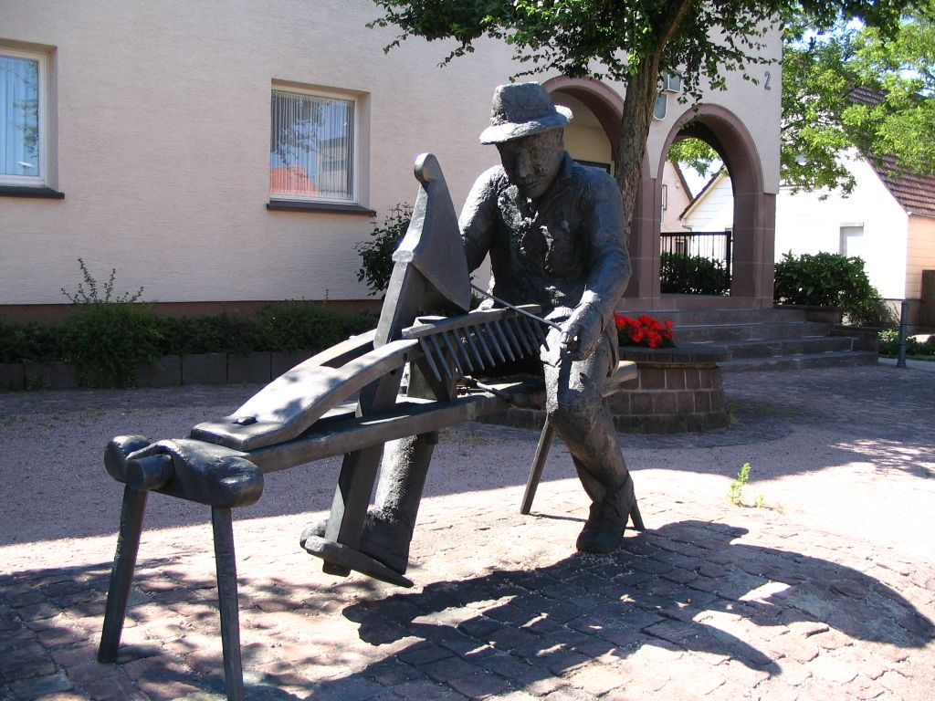 Statue of the Rechenmacher (“rake maker”) in Straubenhardt, Germany